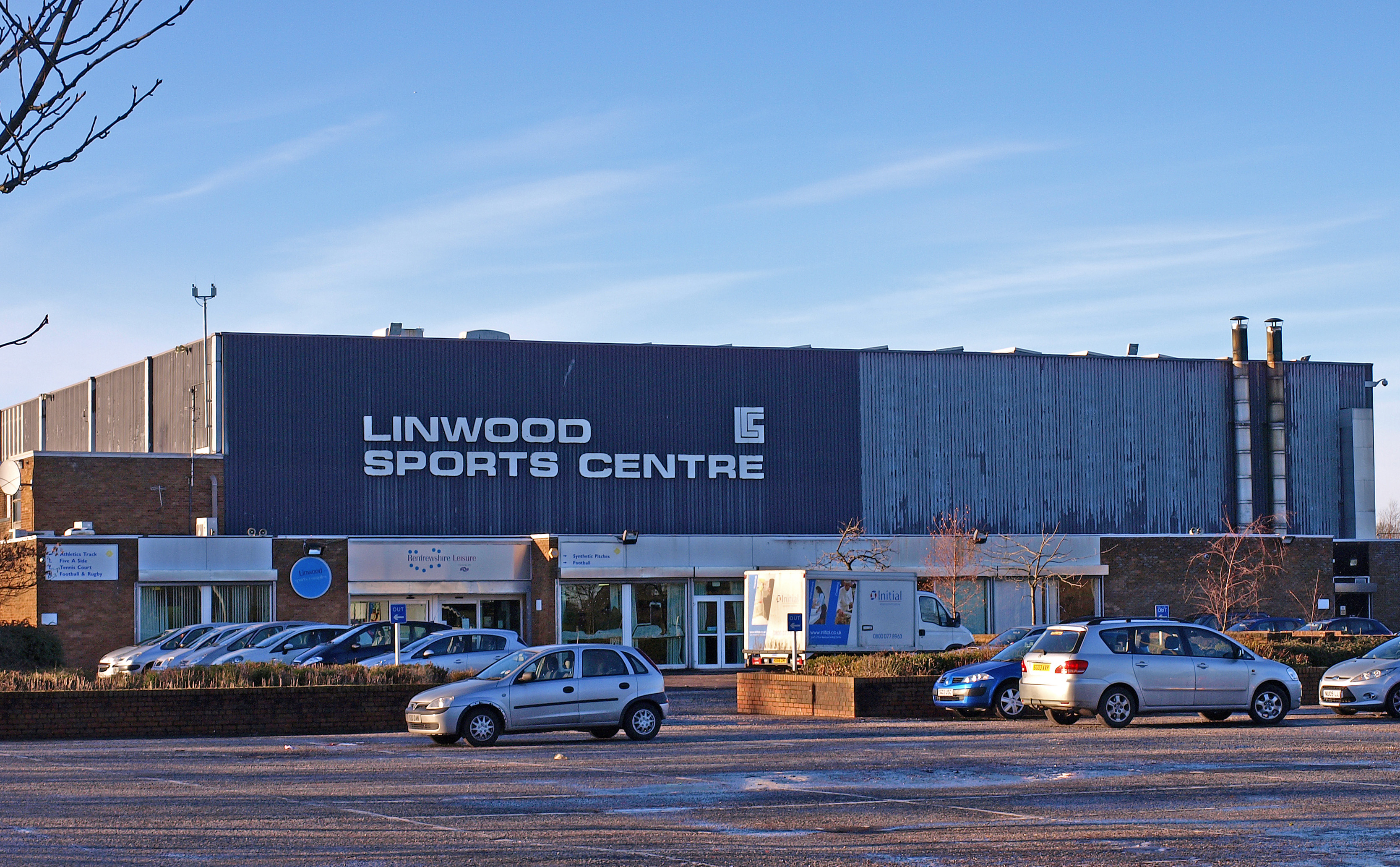 Linwood Sports Centre